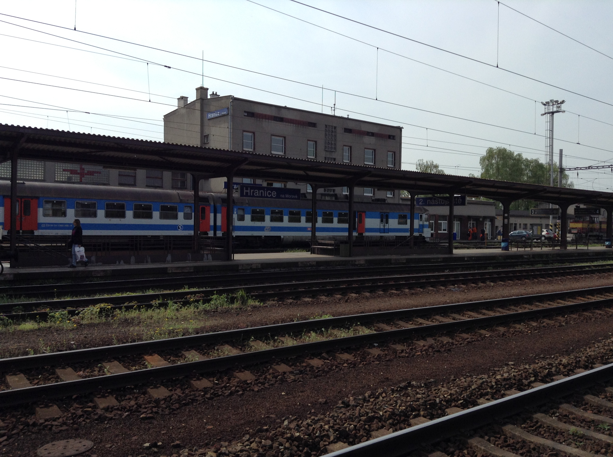 Train station in Hranice na Moravě, Czech Republic